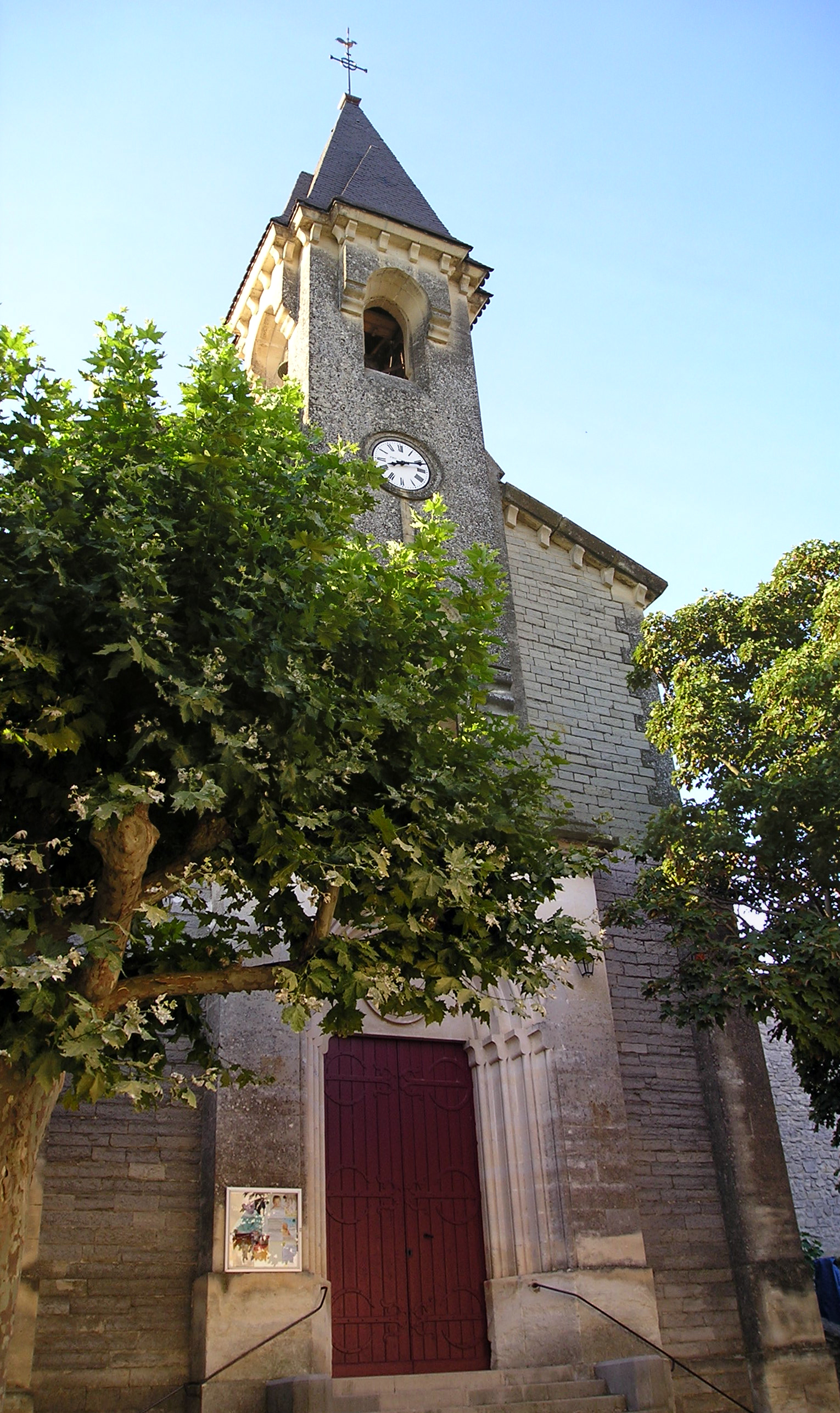 In Hérault, France, the front wall and the arrow of the church in Saint-Bauzille-de-Montmel.